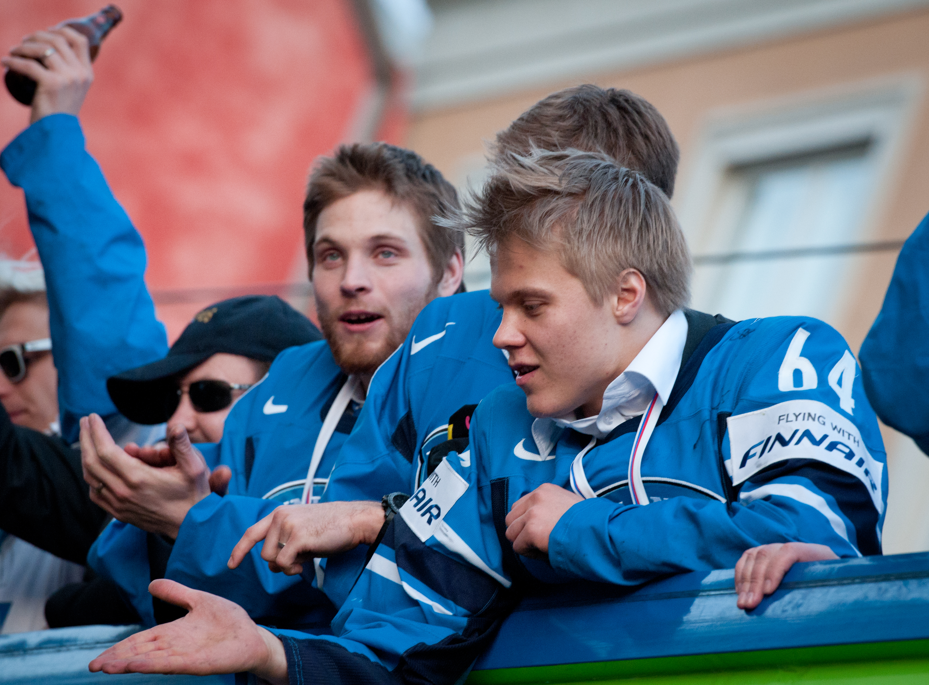 Mikael Granlund and Teemu Lassila (?) at 2011 IIHF World Championship gold medal celebrations in Helsinki